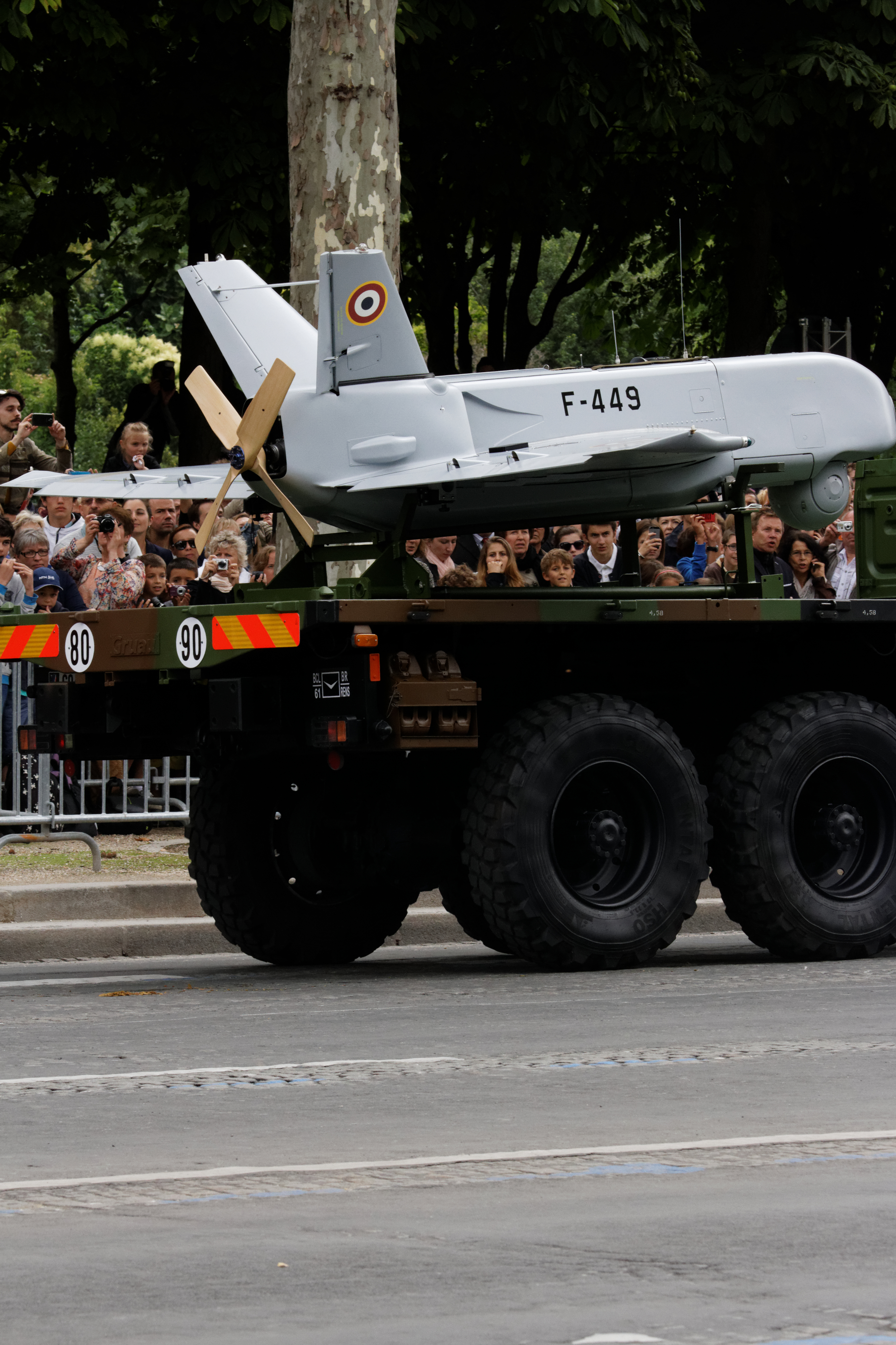 Bastille Day 2014 military parade on the Champs-Élysées in Paris. Motorised troops.